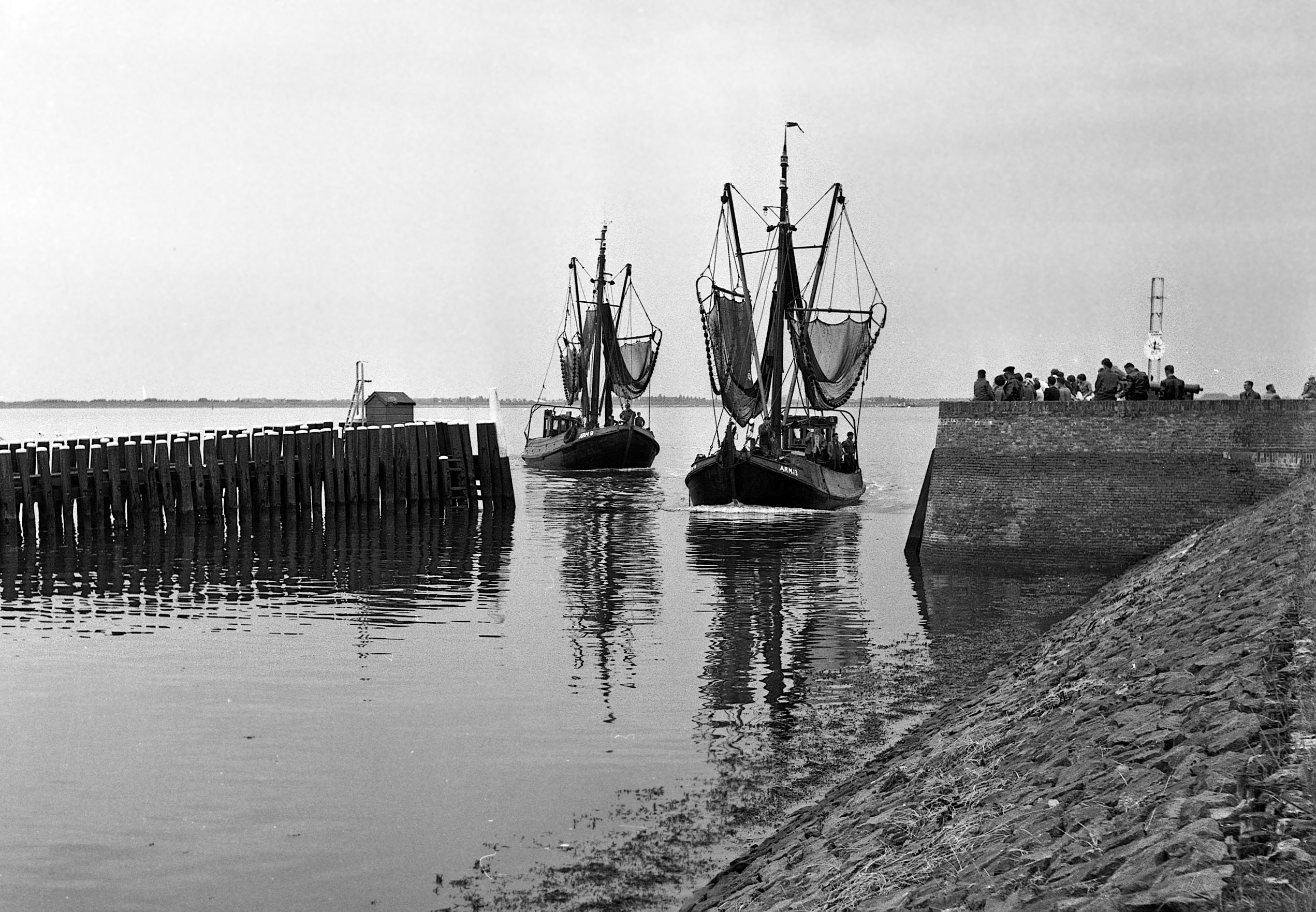 Fishing boats at the (old) habour of Veere, Netherlands